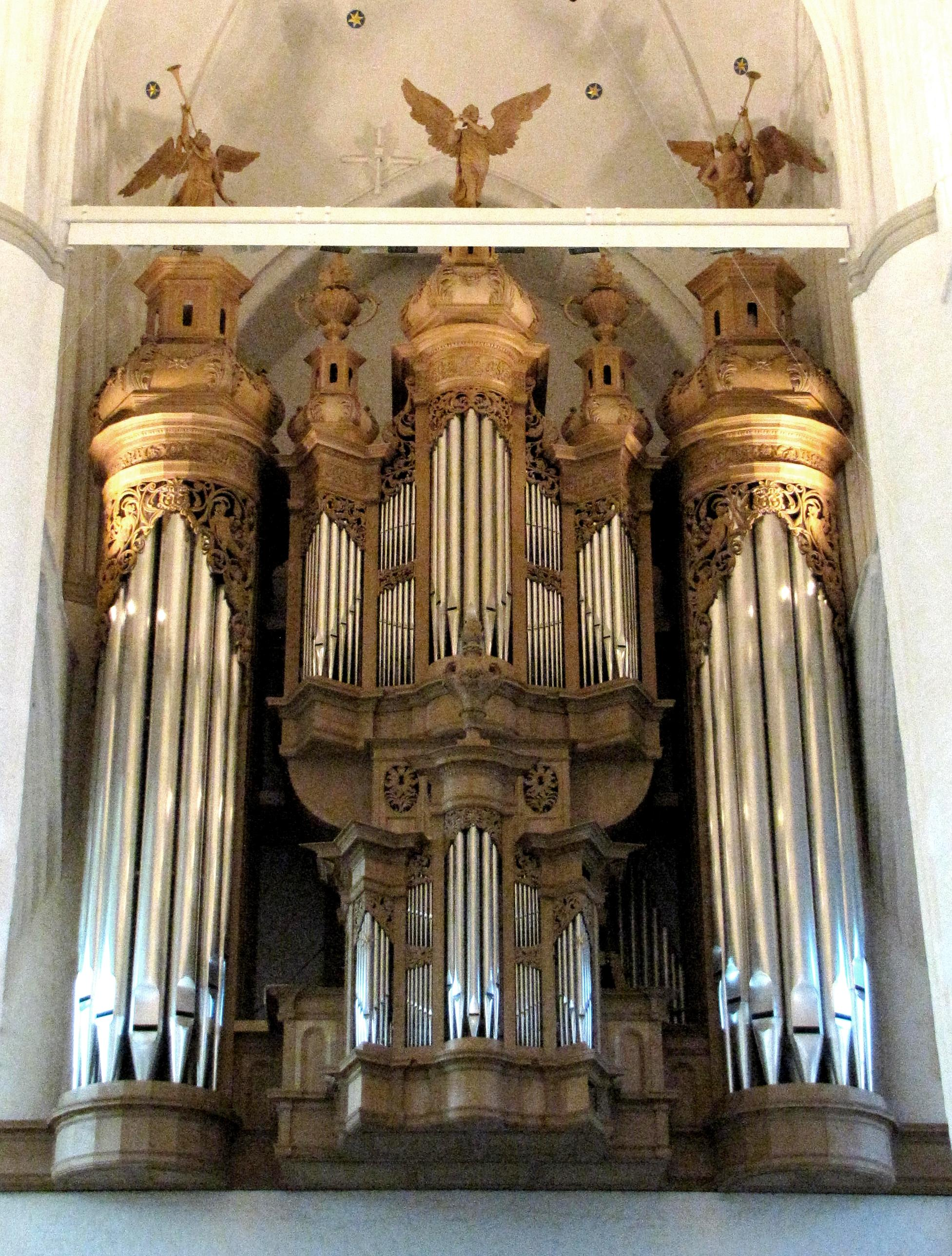 St. Katharinen, Hamburg